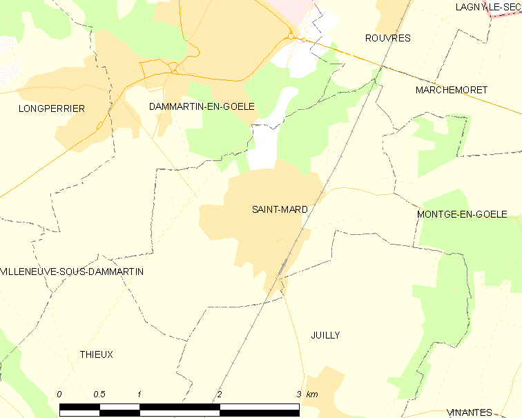 Map of French municipality Saint-Mard